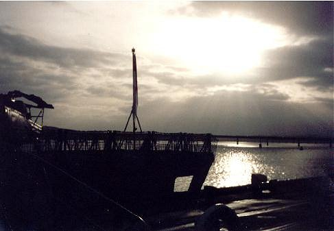 The HMS Montrose is a Type 23 frigate of the Royal Navy, commissioned in 1992. Here it is seen in Dundee Docks, 1998.